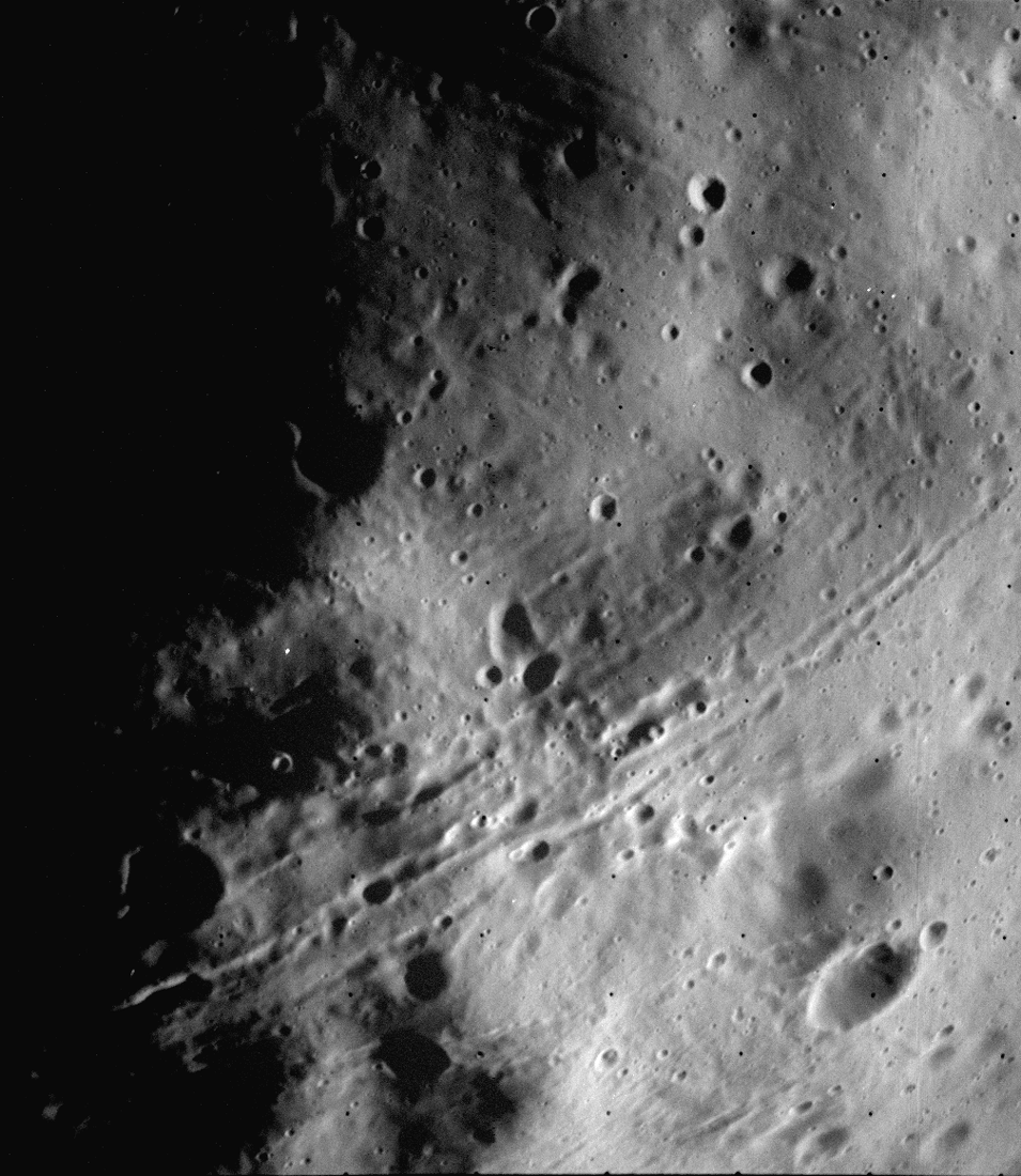 Original Caption: Linear features on Mars' moon, Phobos Viking 1 Orbiter image of linear features on the surface of Mars' satellite Phobos. The features appear to be related to the formation of the crater Stickney, off the image to the bottom left. The sub-Mars point is just off the bottom left corner of the image, and the image, centered at 10 N, 330 W, is about 7 km across. North is at 11:30.